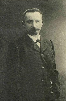 Kirill Chernosvitov